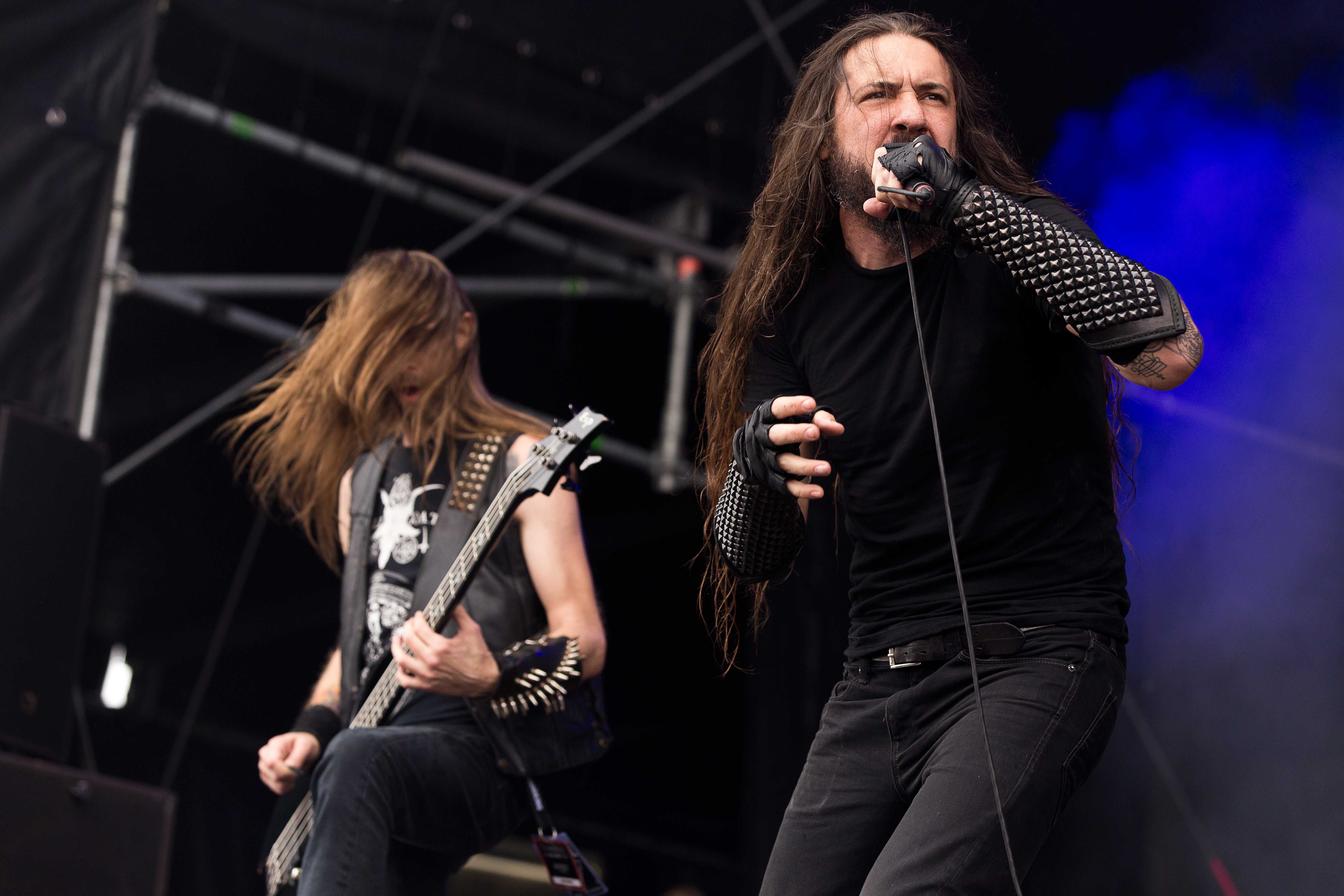 The US blackened death metal band Goatwhore at the Party.San Metal Open Air 2016 in Obermehler-Schlotheim/Germany